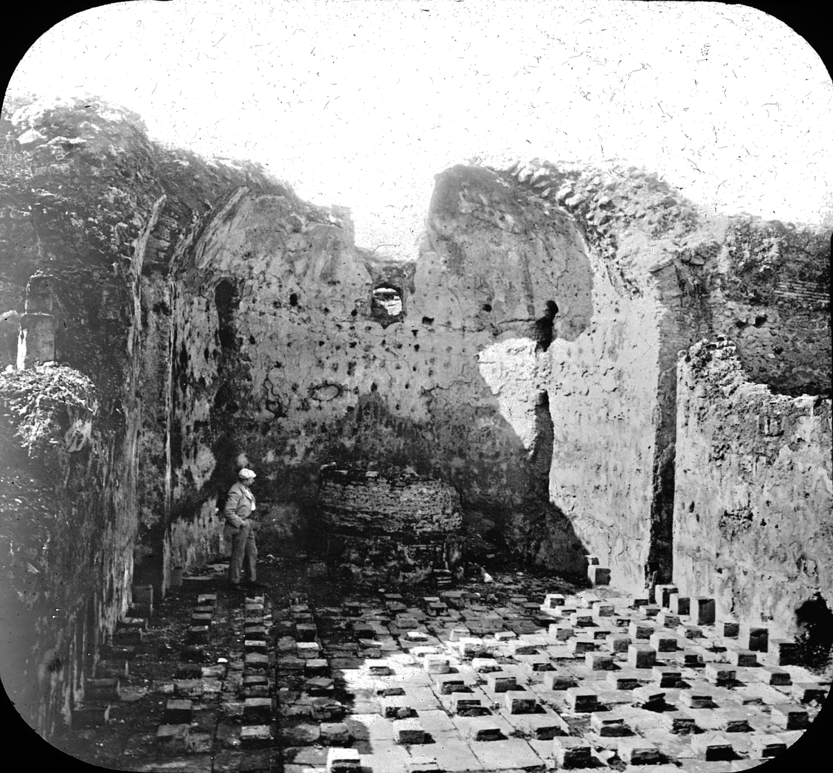 Pompeii, Italy. Hot room, Roman bath, Pompeii. Brooklyn Museum Archives, Goodyear Archival Collection (S03_06_01_024 image 3157).